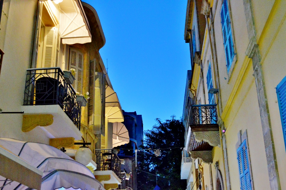 Old Nicosia Verandas by night Nicosia Republic of Cyprus